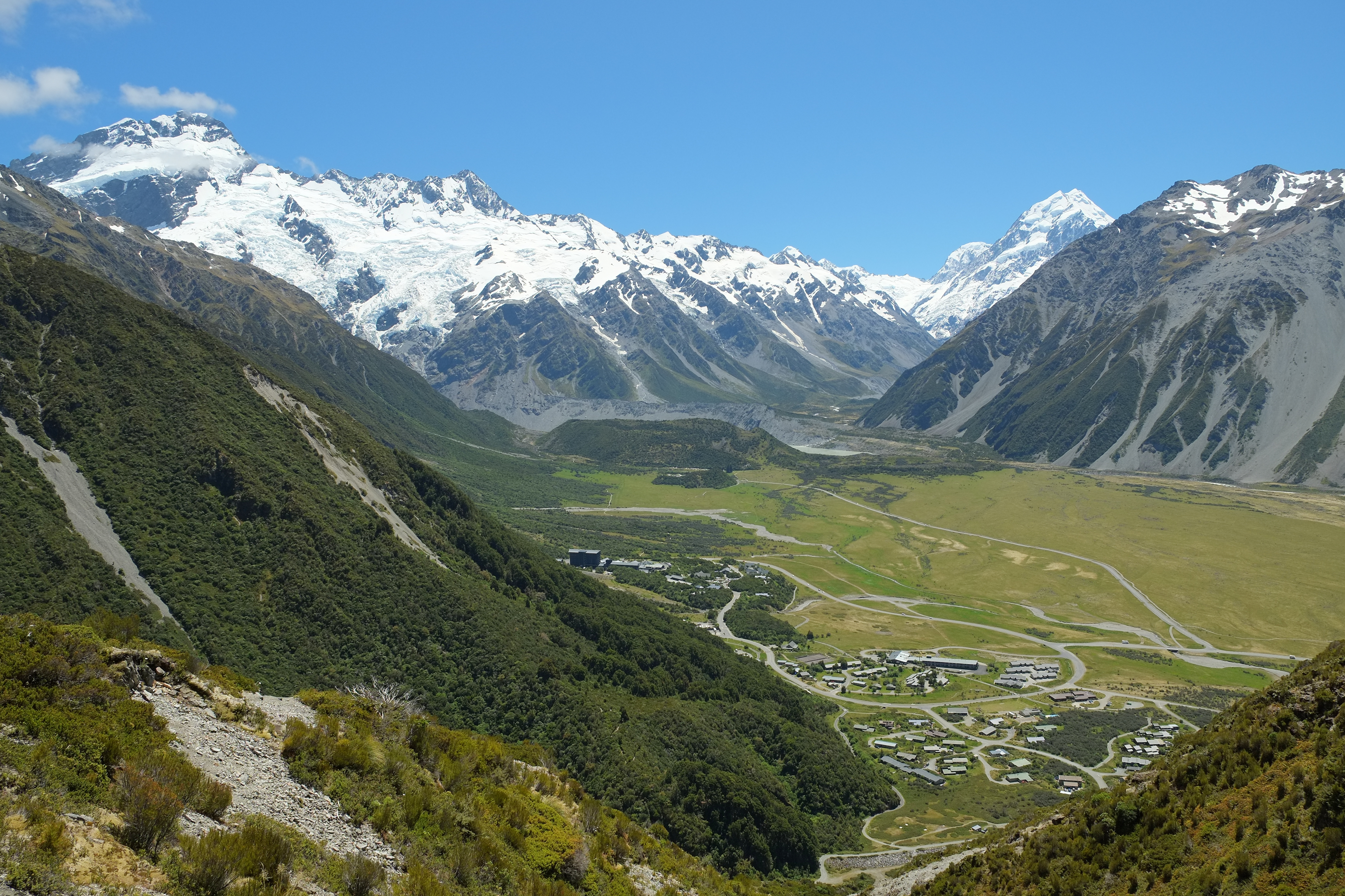 View over Mount Cook Village to Hooker Valley, Mt Sefton and Mount Cook